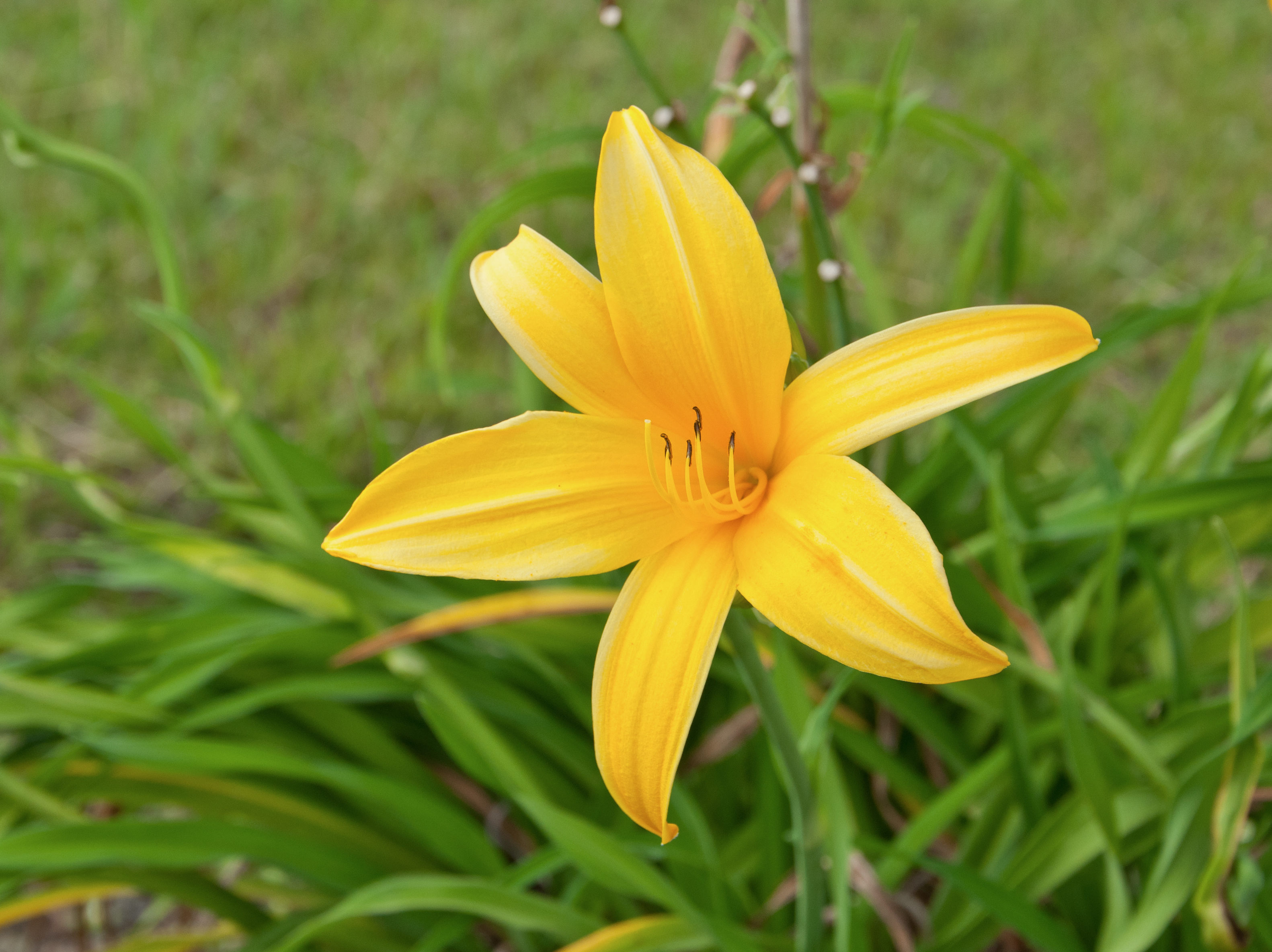 Flower of Hemerocallis lilioasphodelus, from south-east Venezuela.